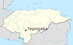 Locator map of Tegucigalpa — the capital city of Honduras.